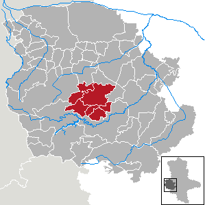 VG Blankenburg in Saxony-Anhalt - District Harz